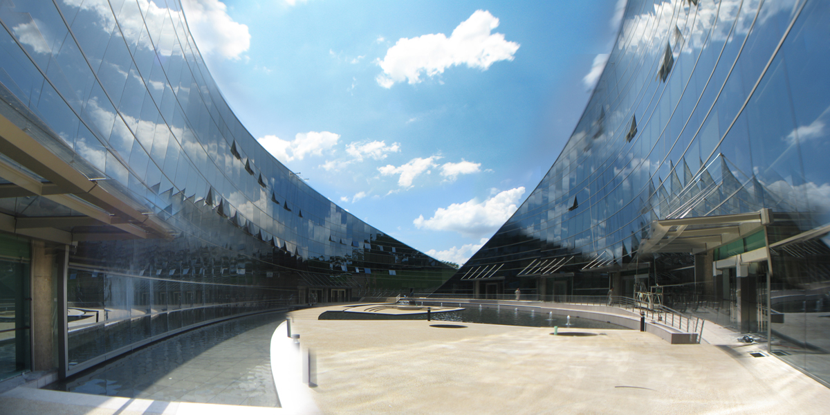 NTU School of Art, Design and Media